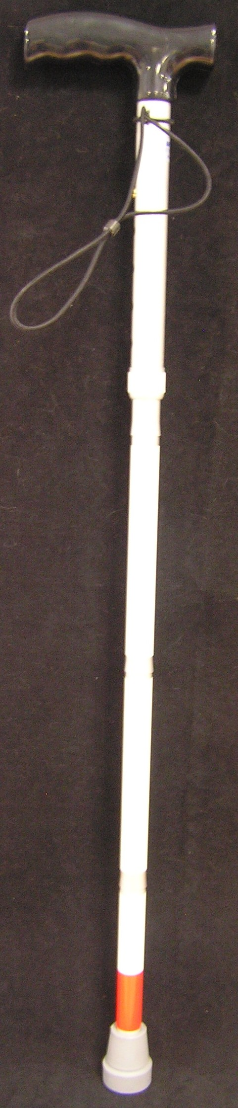 A folded support cane. These are designed to give physical stability to the vision impaired user and have very limited use as a mobility tool.